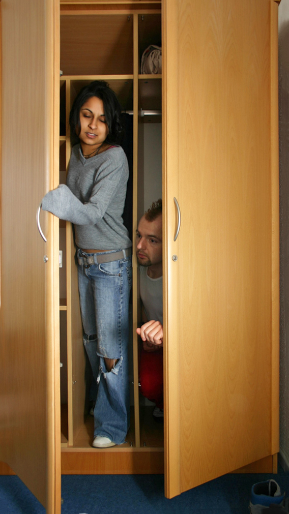 Coming out of the closet